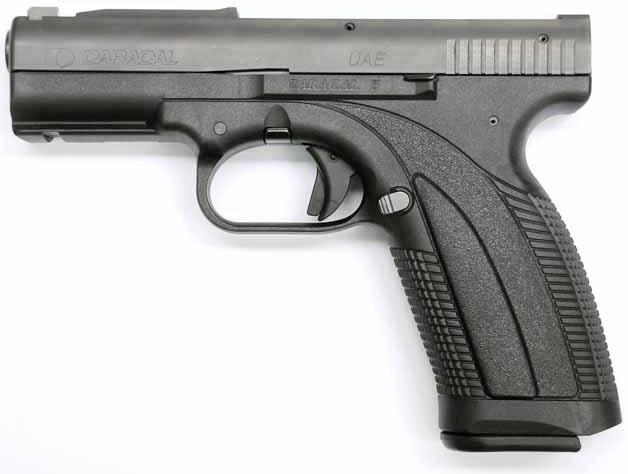 CARACAL International LLC Model "Caracal F" semi-automatic pistol, with "Quick-Sight" sights.